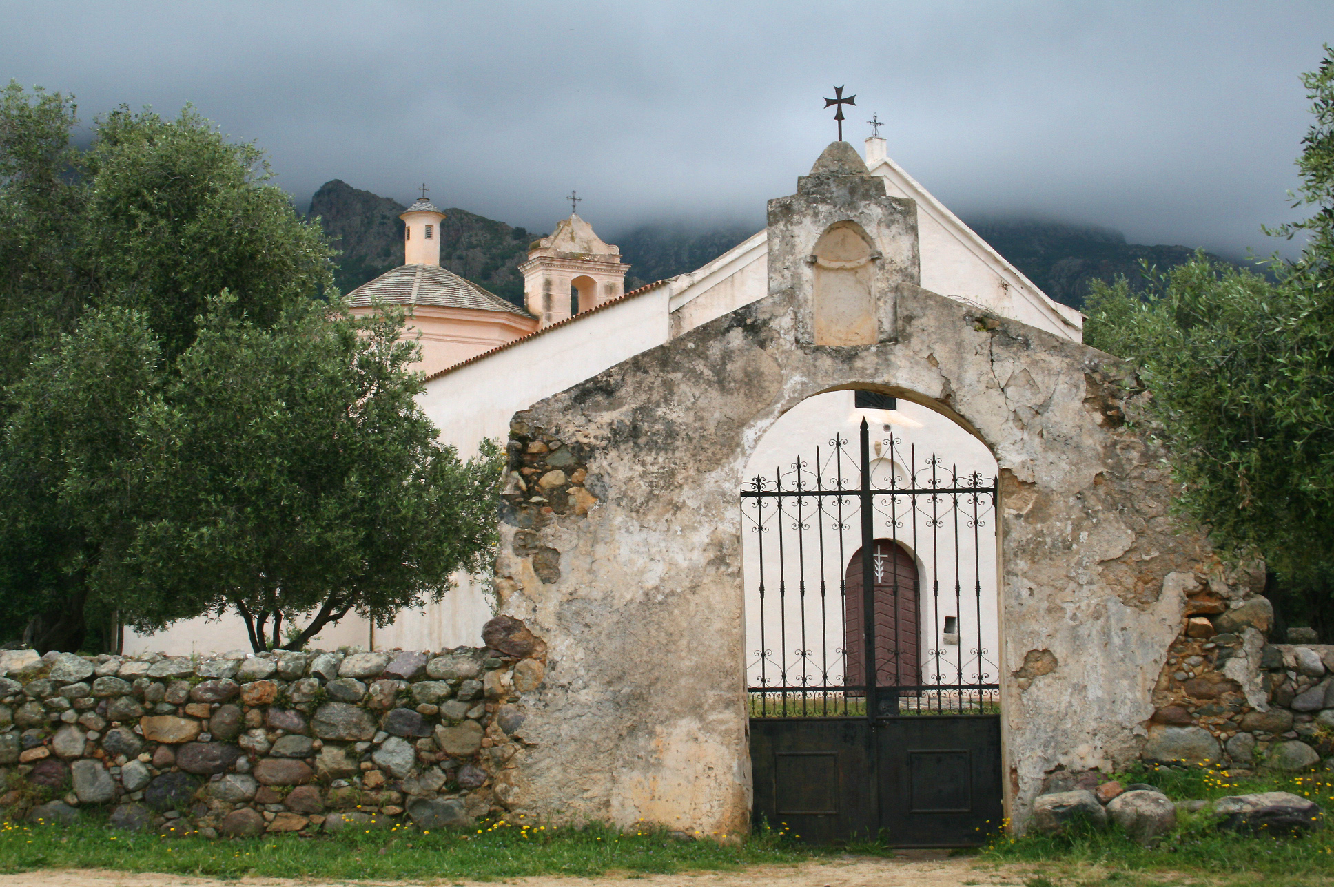 Calenzana France - (Haute-Corse), the Sainte Restitude church (XIVth century). Corsu: Calenzana Francia (Corsica suprana), u chjesa Santa Ristituta (Quatrucentu). Walon: Calenzana France – (Corse-do-Nord), l’èglîje Sinte-Rèstitûde (XIVin.me sièke).